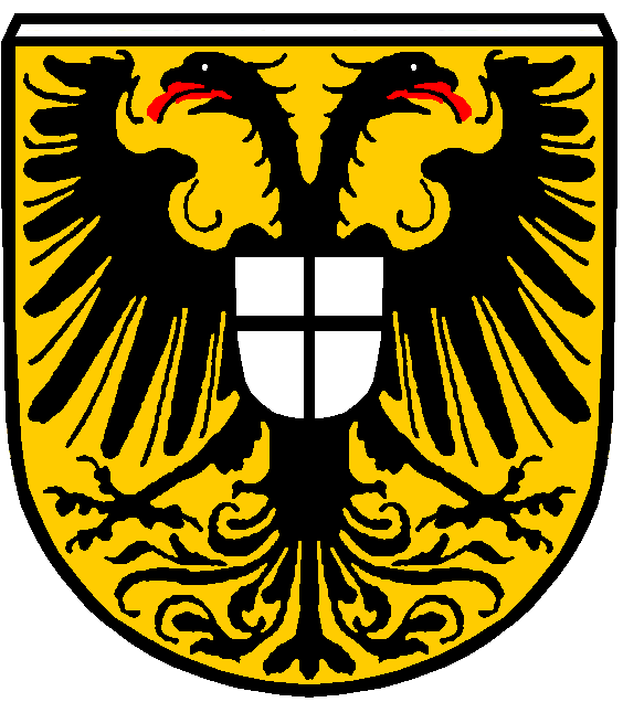 In 1174 Emperor Friedrich Barbarossa built the Kaiserpfalz around which the town developed. From the building is now only a ruin left. Hence the Imperial eagle as the main charge of the arms. The eagle can alos be seen on the seal of the town from the 13th century. The small shield is the arms of the State of Cologne , to which the town belonged from 1424-1762.